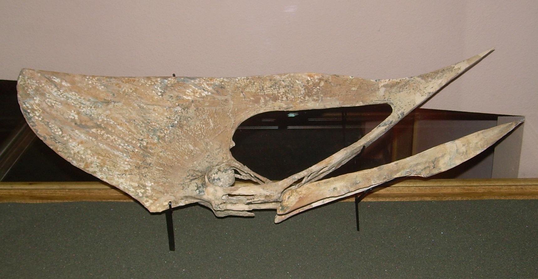 Photograph of a cast of a fossil Tupuxuara skull taken at the North American Museum of Ancient Life.